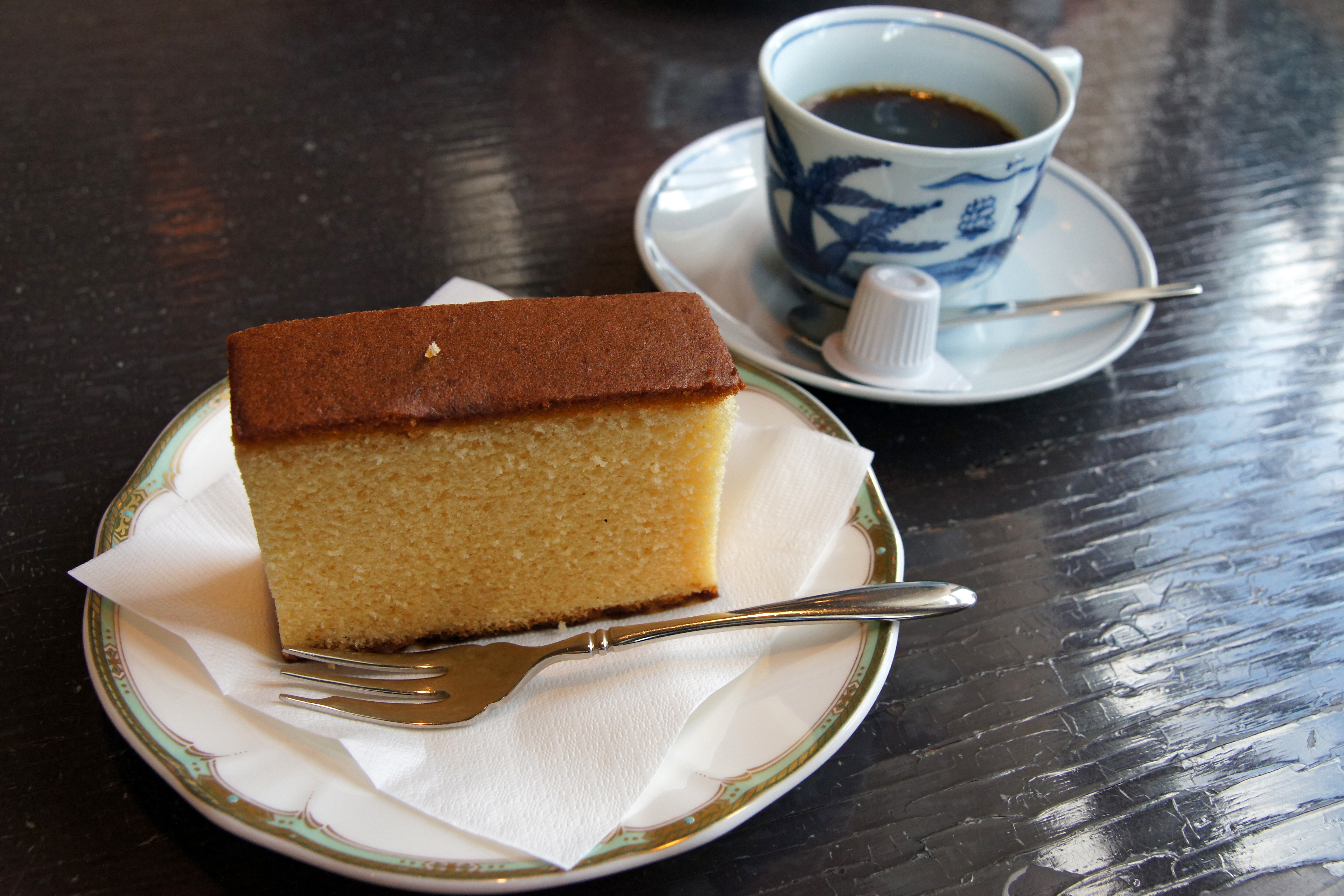 Former "Jiyu-tei" Restaurant in Glover Garden, Nagasaki, Nagasaki prefecture, Japan